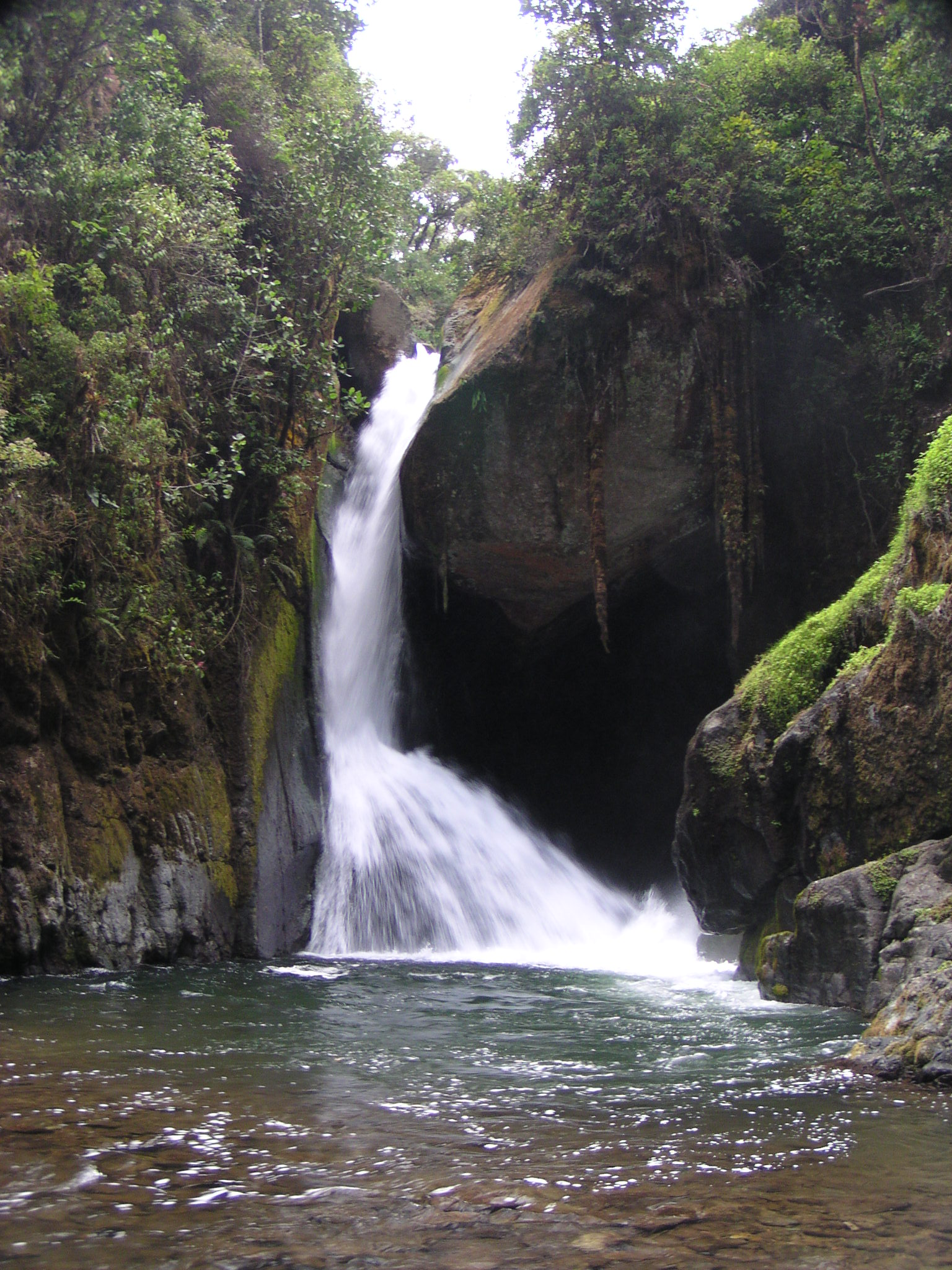 This waterfall is on the Rio Savegre just below San Gerardo de Dota in the Talamanca Mountains of Costa Rica